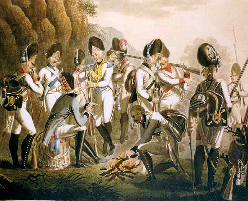 Saxon infantry of napoleonic era